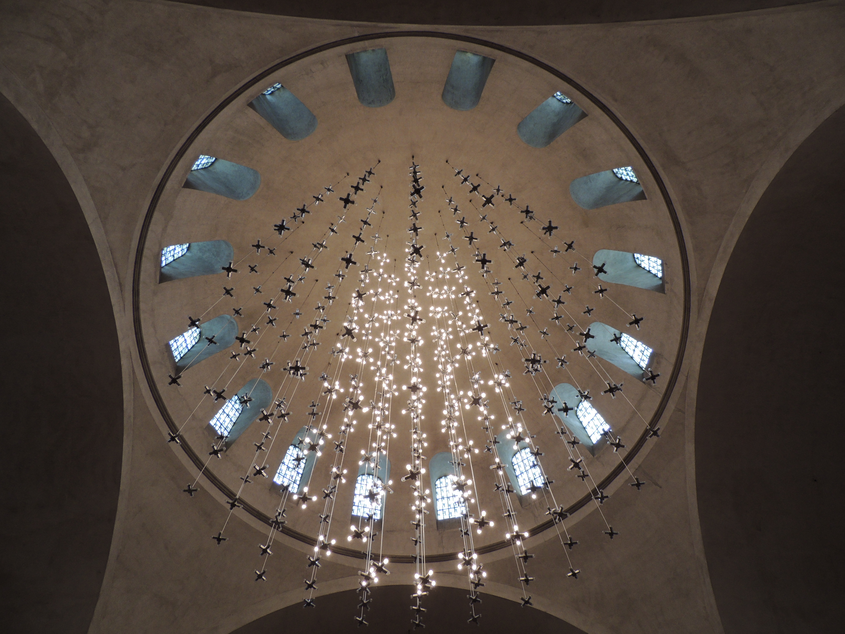 Cloud of light in the dome of the St. Bernhard church in Frankfurt am Main-Nordend, in May 2014